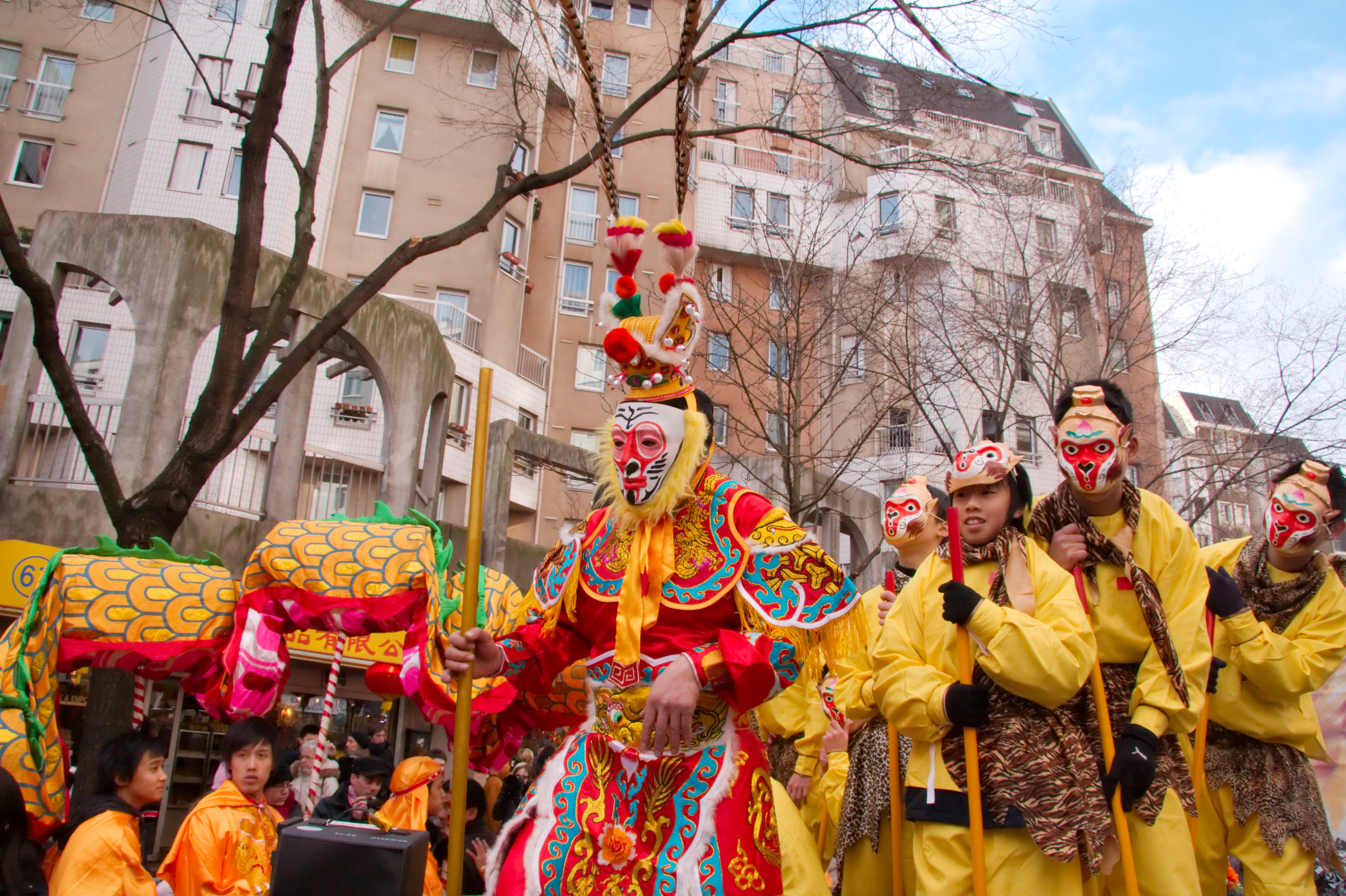 Chinese New Year, which took place in the 13th arrondissement of Paris (France)